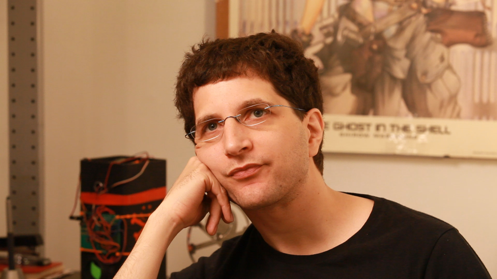 Delighted to be a part of the documentary.